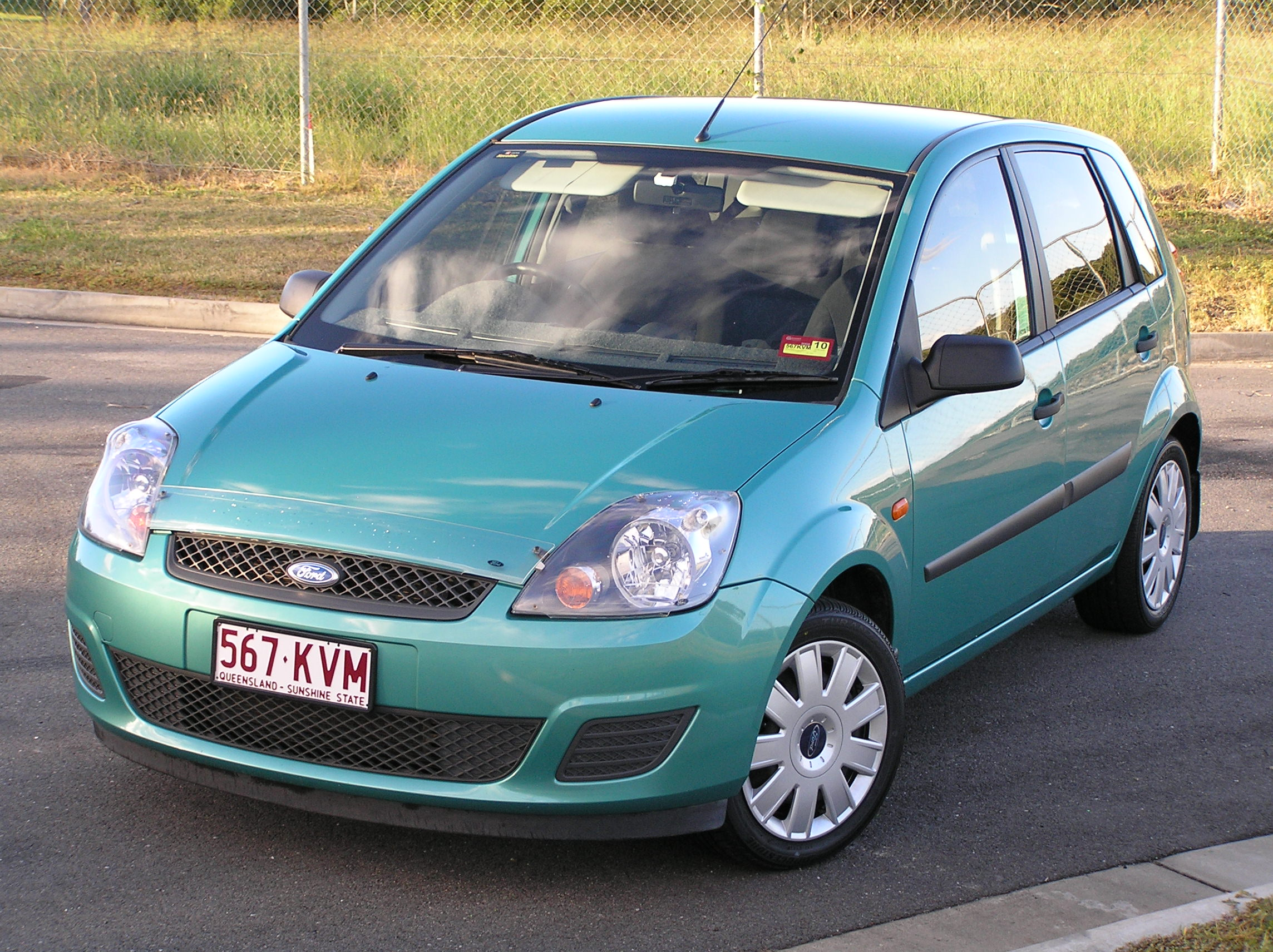 2006 Ford Fiesta (WQ) LX 5-door hatchback. Photographed in Queensland, Australia. Vehicle registration enquiry results Jurisdiction Queensland Registration 567KVM Chassis code WF0HXXGAJH6B65771 Year of manufacture 2006